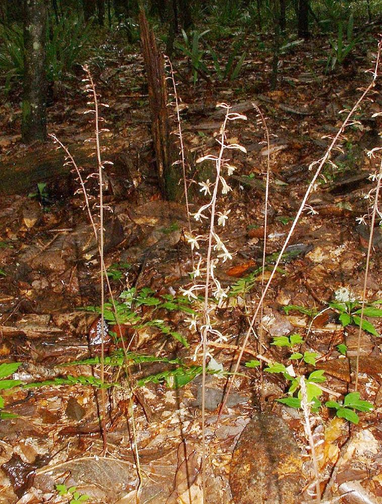 Crane-fly orchid, Tipularia discolor, with only flowers visible prior to leaf growth; Gadsden Co. FL, USA